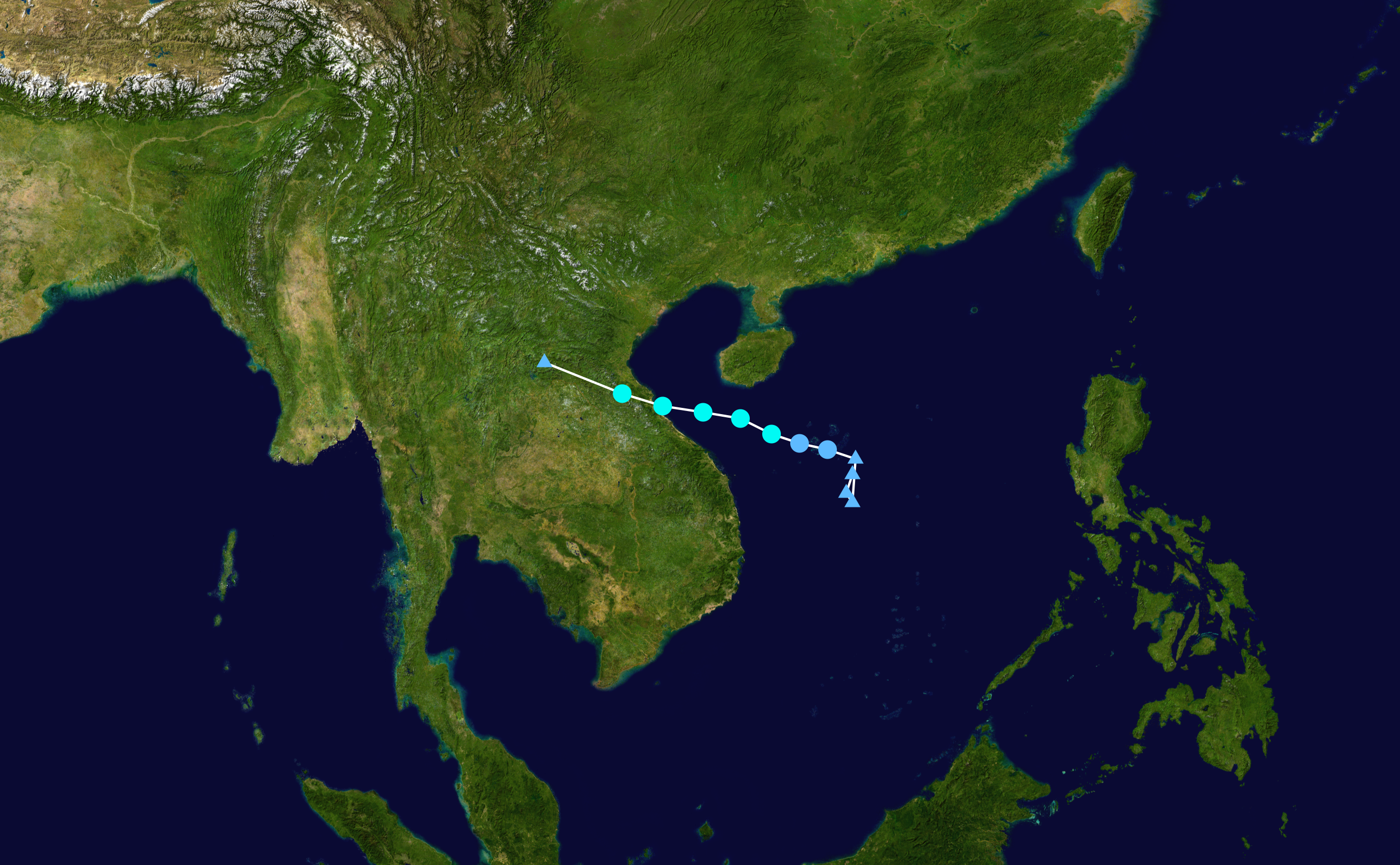 Track map of Tropical Storm Mekkhala of the 2008 Pacific typhoon season. The points show the location of the storm at 6-hour intervals. The colour represents the storm's maximum sustained wind speeds as classified in the Saffir–Simpson scale (see below), and the shape of the data points represent the nature of the storm, according to the legend below. Saffir–Simpson scale Tropical depression≤38 mph≤62 km/h Category 3111–129 mph178–208 km/h Tropical storm39–73 mph63–118 km/h Category 4130–156 mph209–251 km/h Category 174–95 mph119–153 km/h Category 5≥157 mph≥252 km/h Category 296–110 mph154–177 km/h Unknown Storm type Tropical cyclone Subtropical cyclone Extratropical cyclone / Remnant low / Tropical disturbance / Monsoon depression